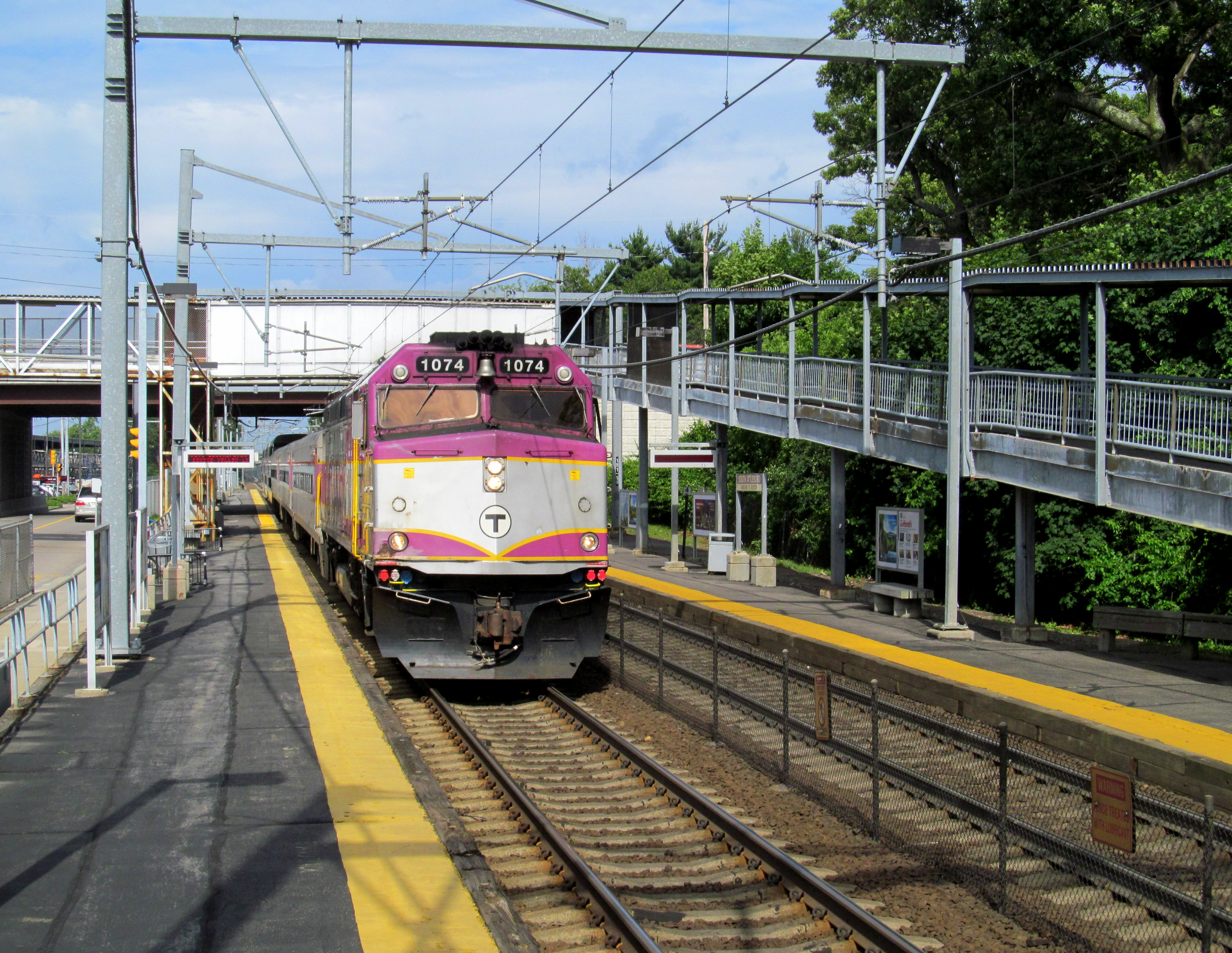 An outbound train arriving at South Attleboro station in June 2013